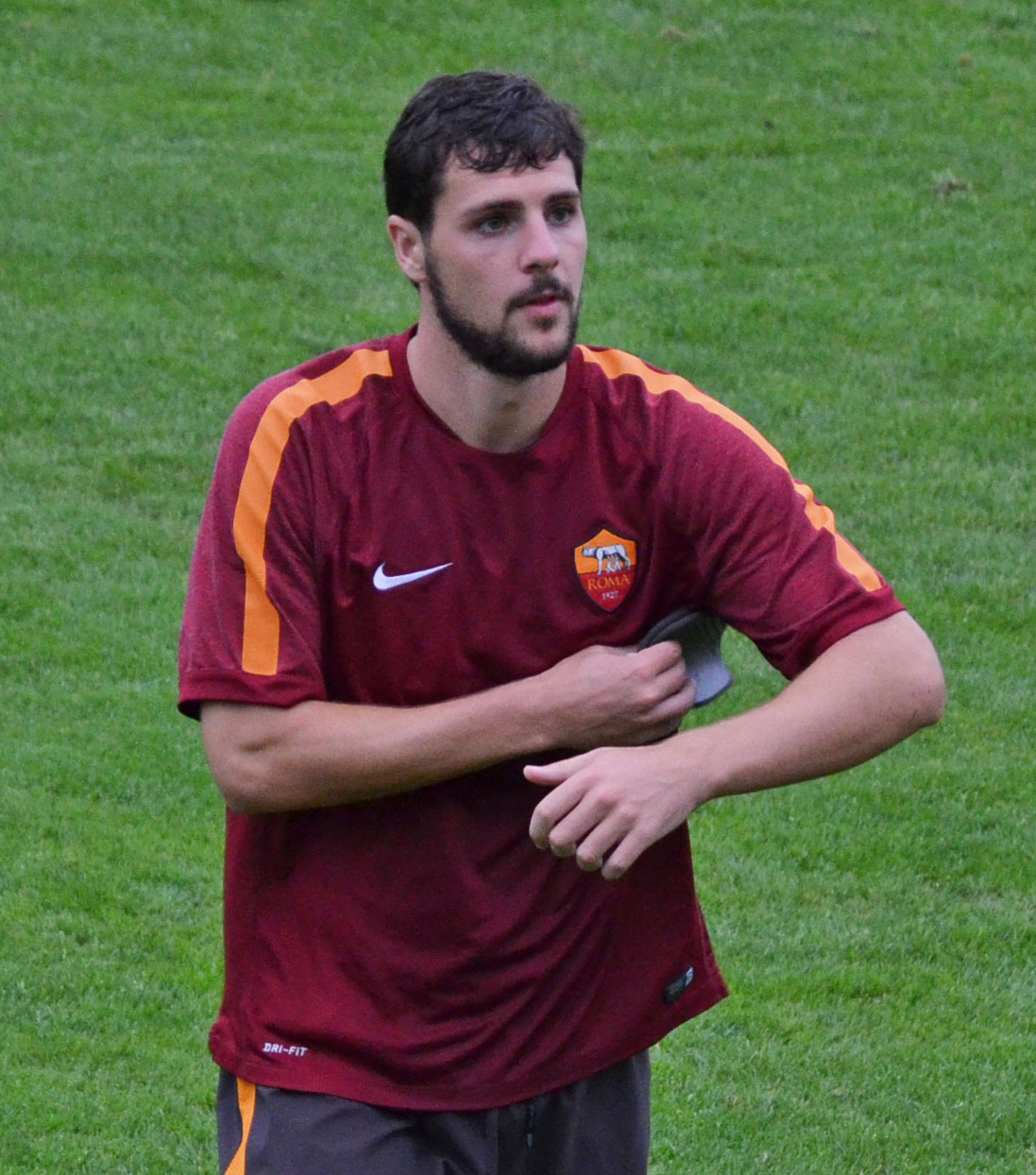 Italian footballer Mattia Destro (AS Roma), Bad Waltersdorf (Austria), 12 August 2014.